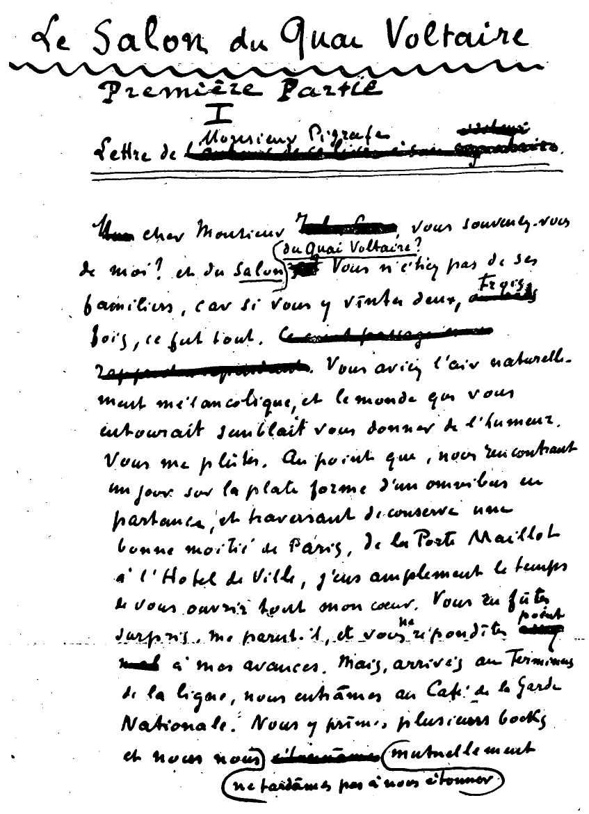 First page of Le Salon du quai Voltaire (1914) by French writer and journalist Jules Case (1854-1931)